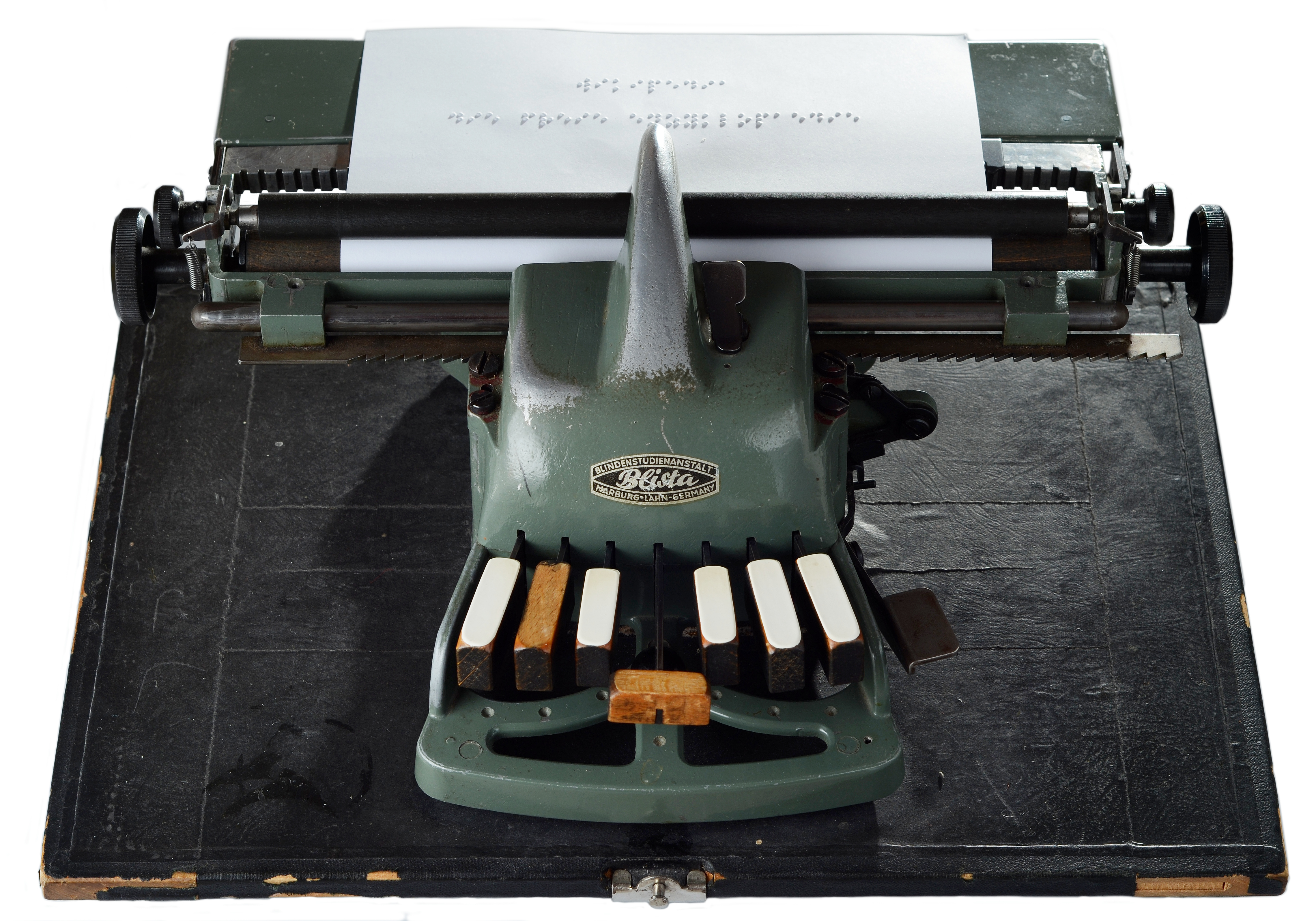 Braille typewriter made by Blista. The text on the sheet says “Wikipedia ↵ Die freie Enzyklopaedie”. The typewriter was owned by Michael Peter-Christoph Haessig until his death. He was blind sportsman, physiotherapist, and passionate collector of music; his collection contained more than 120 000 works, many rarities amongst them, towards the end of 2012.